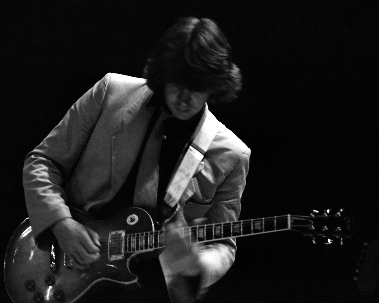 Mick Taylor on stage with John Mayall in Cleveland early 1980's